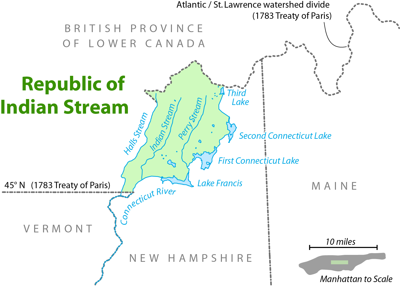 Map showing the location of the Republic of Indian Stream. I, Citynoise, am the creator of this map and hereby release it under the ShareAlike Attribution License. for more.